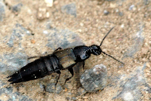 Picture taken in Commanster, Belgian High Ardennes . Species: Philonthus cognatus